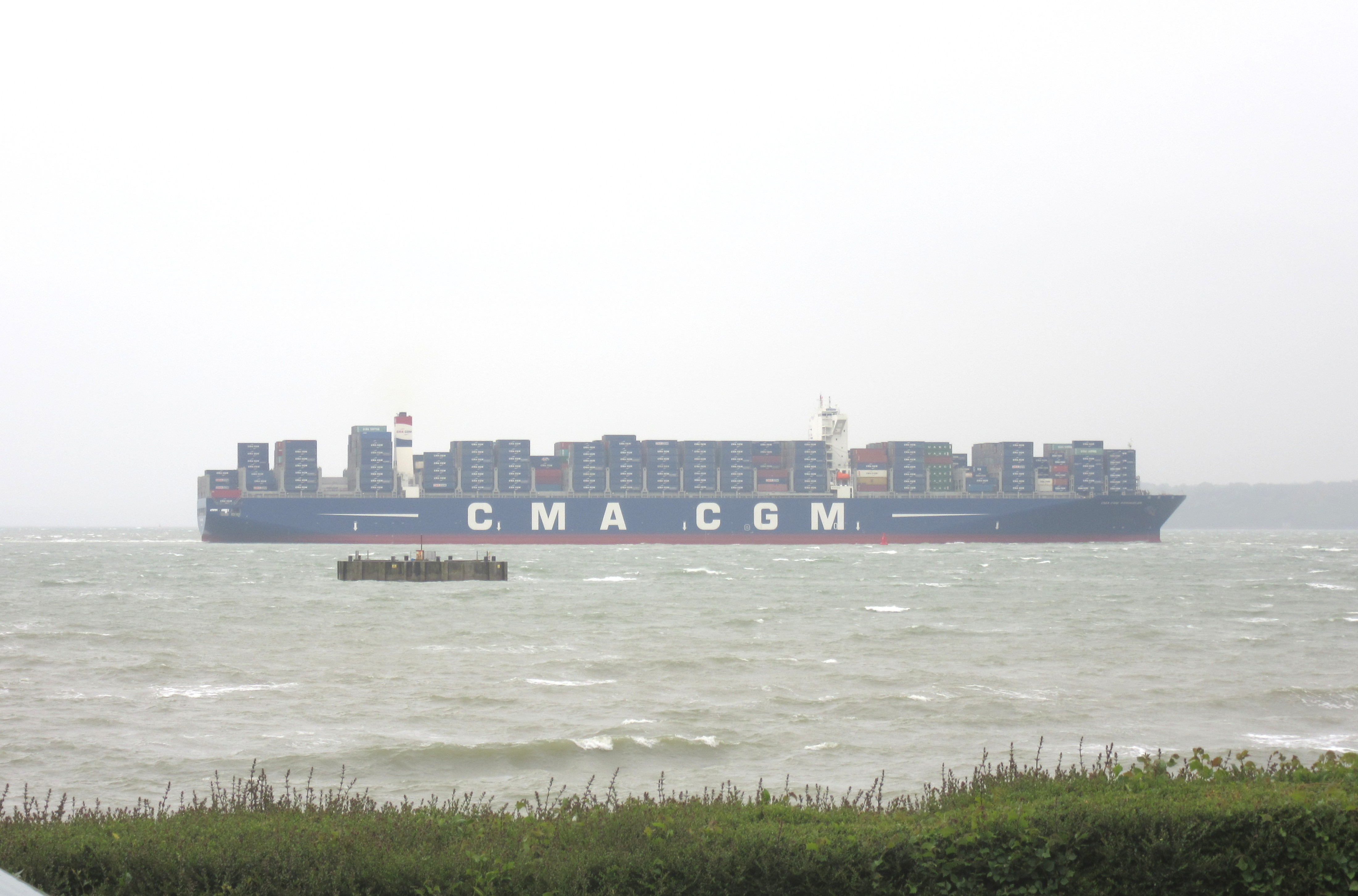 CMA CGM Kerguelen (container ship) in the Solent after leaving Southampton during her maiden voyage. Picture taken about 2015-05-14 09:00 as she was passing the cooling water outfall from Fawley_Power_Station, at Calshot. The Isle_of_Wight is just visible in the background. Wind is East force 6, sea moderate to rough, heavy ovecast, visibility moderate. Note that the time in the EXIF file is Cape Town, not BST.